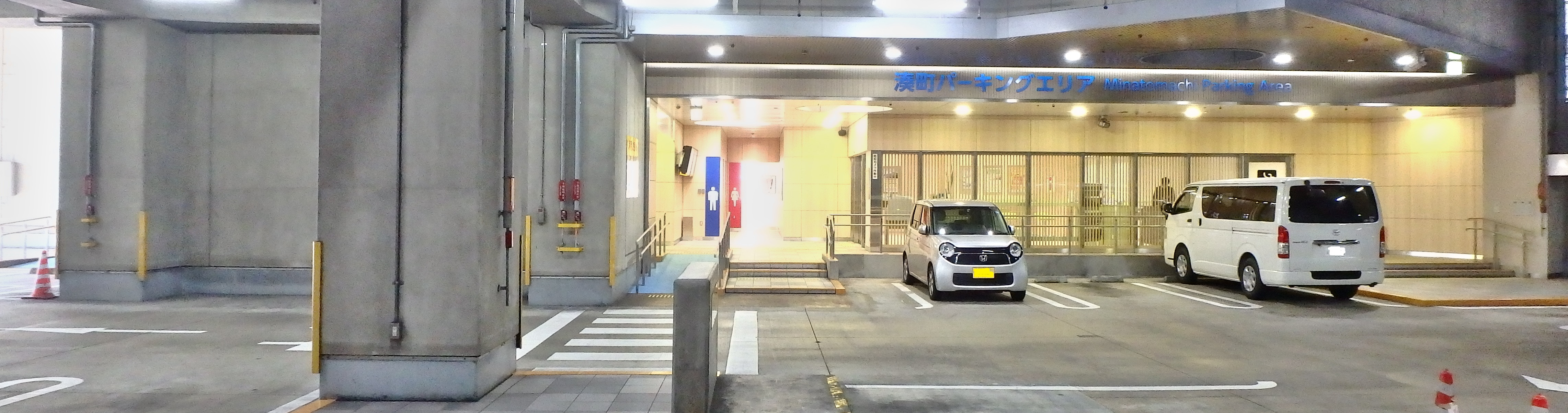 Minatomachi Parking Area, Osaka prefecture,Japan